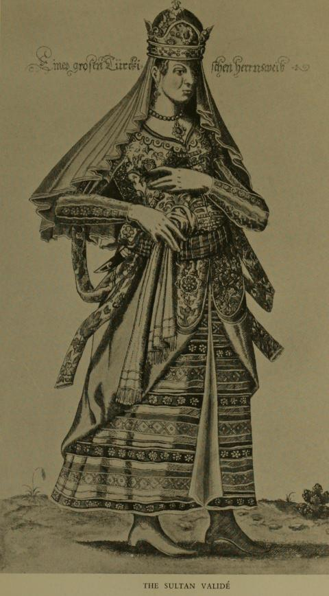 La Grand Dame Turque as it was written in original picture by Nicolas de Nicolay.